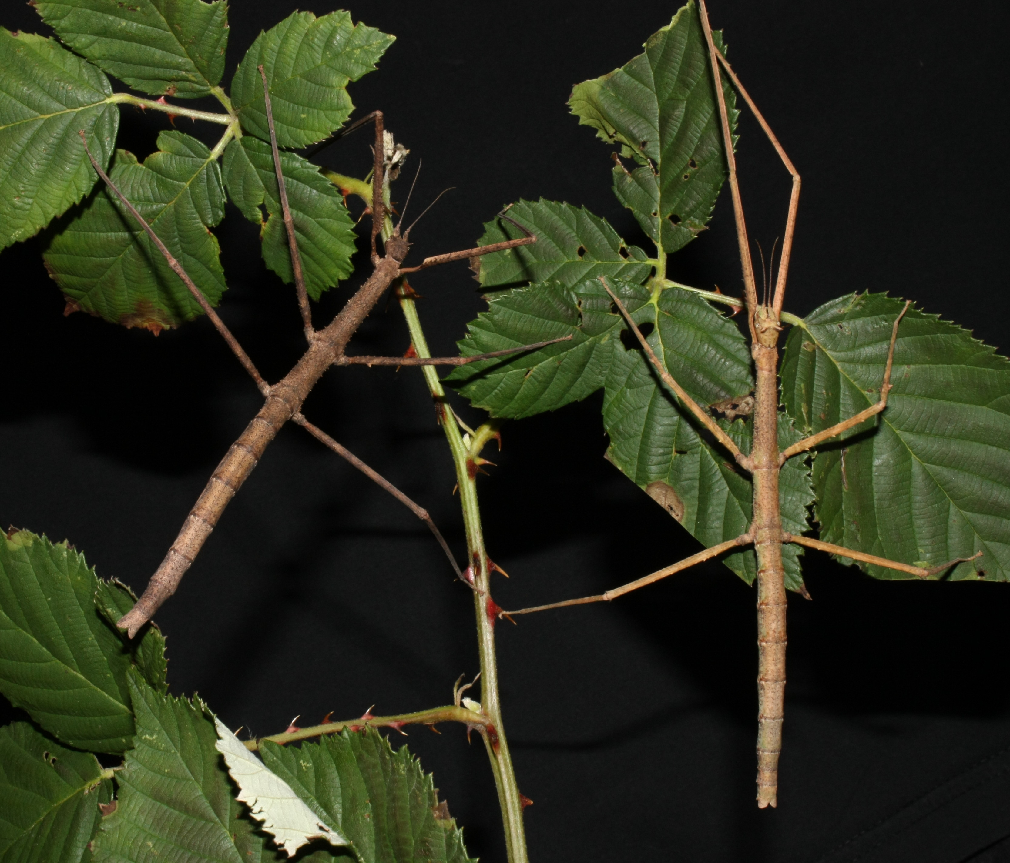 Different colored females of Annam Walking Stick (Medauroidea extradentata)